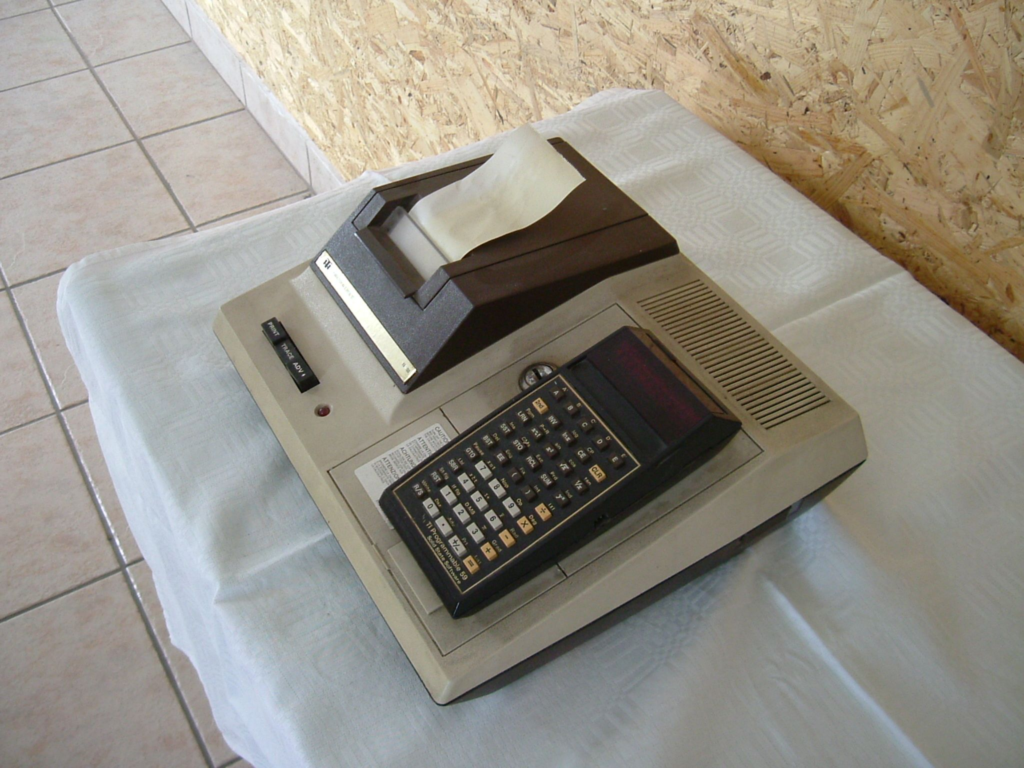 Texas Instruments TI-59 programmable calculator with printer